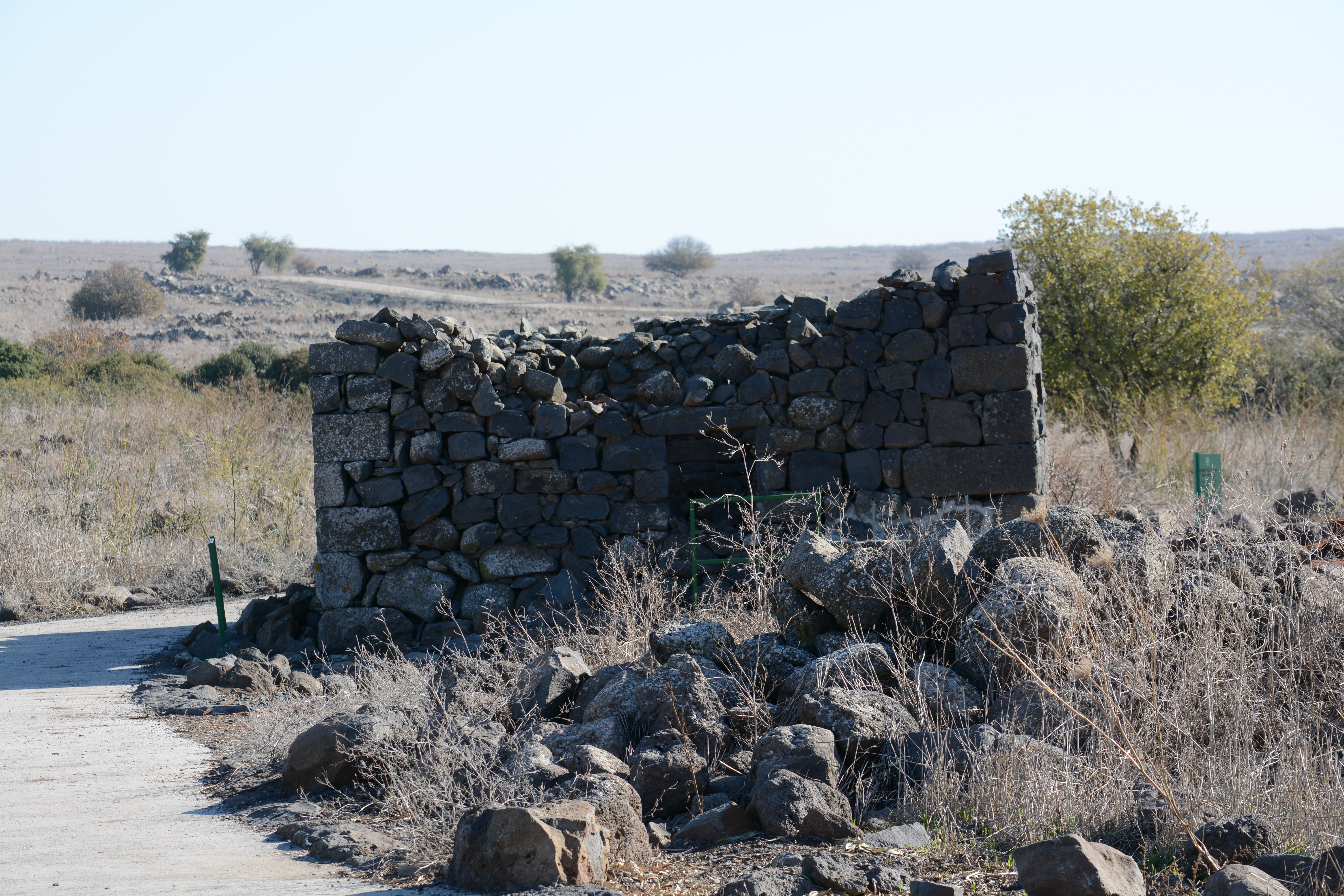 Deir Qeruh, Archaeology site in Golan Height